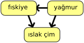 Basit bir Bayes ağı örneği.